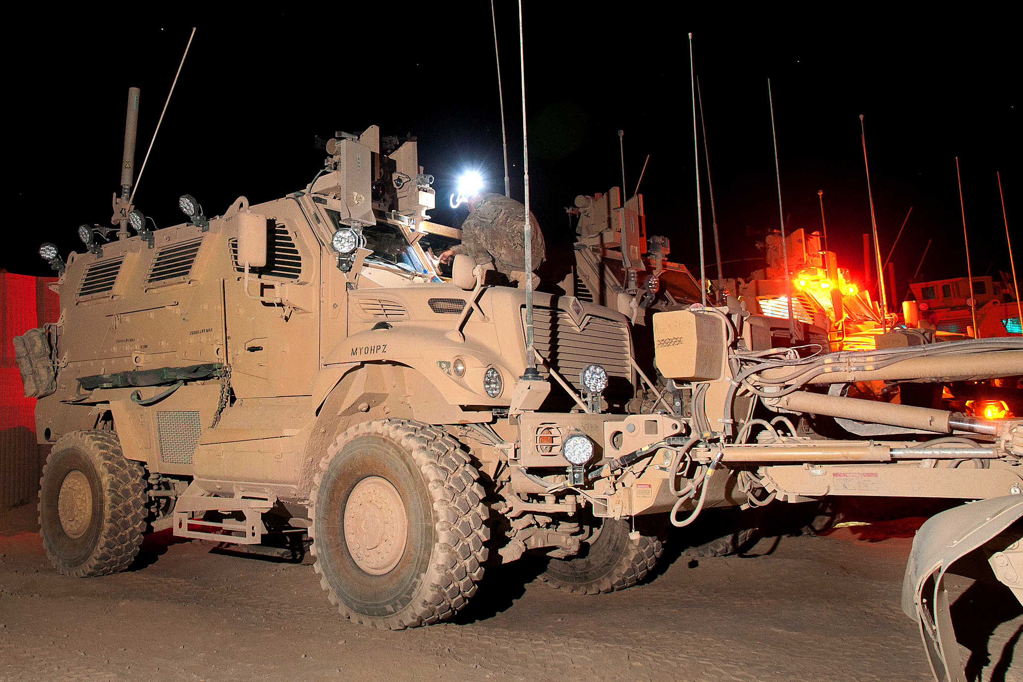 A U.S. paratrooper washes the windows of a mine-resistant, ambush-protected vehicle before a combat logistics patrol mission on Forward Operating Base Arian in Afghanistan's Ghazni province, July 8, 2012. The soldier is assigned to the 82nd Airborne Division's 307th Brigade Support Battalion, 1st Brigade Combat Team.